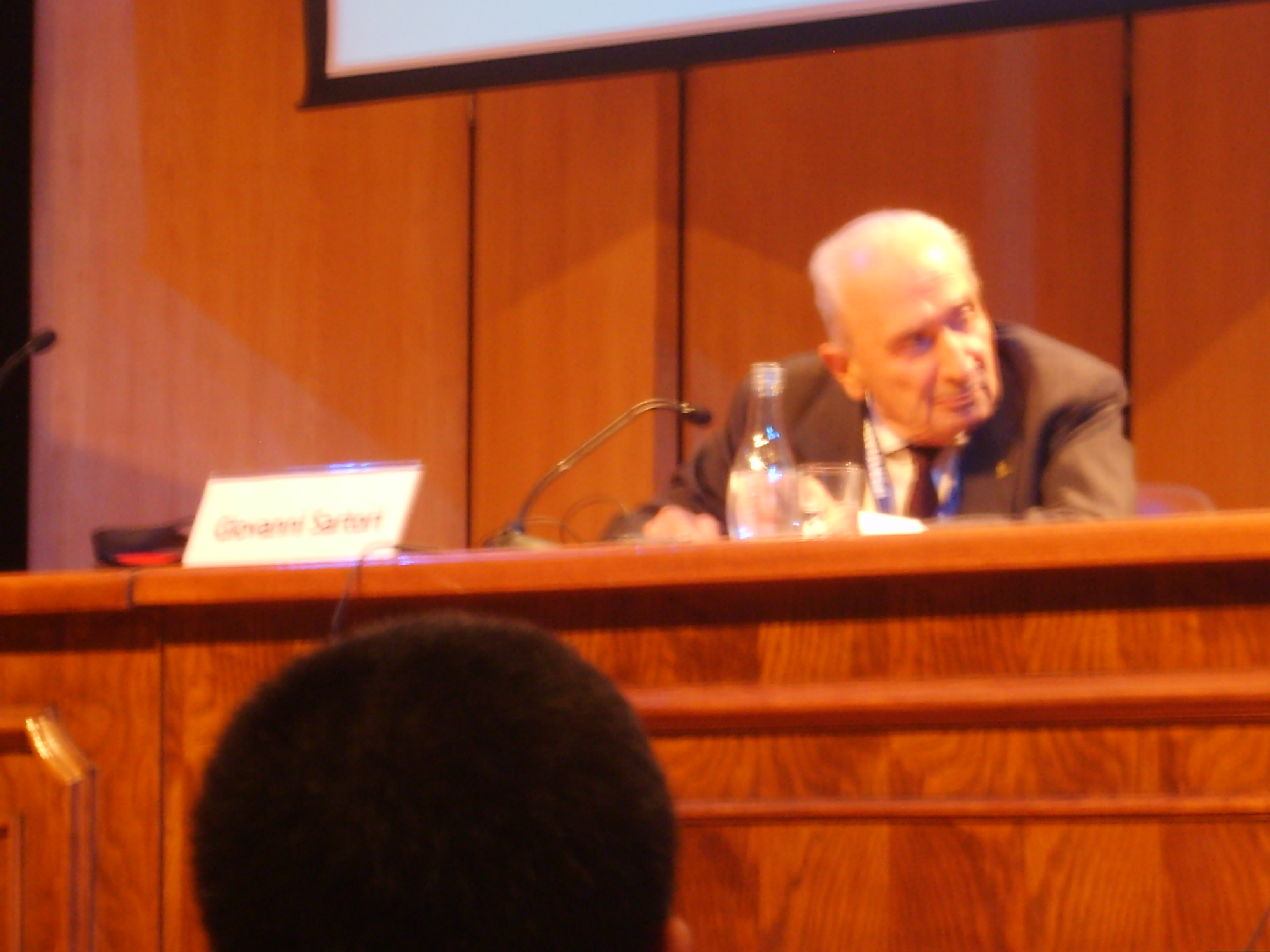 Giovanni Sartori at the 21st World Political Science Congress, held in Santiago de Chile